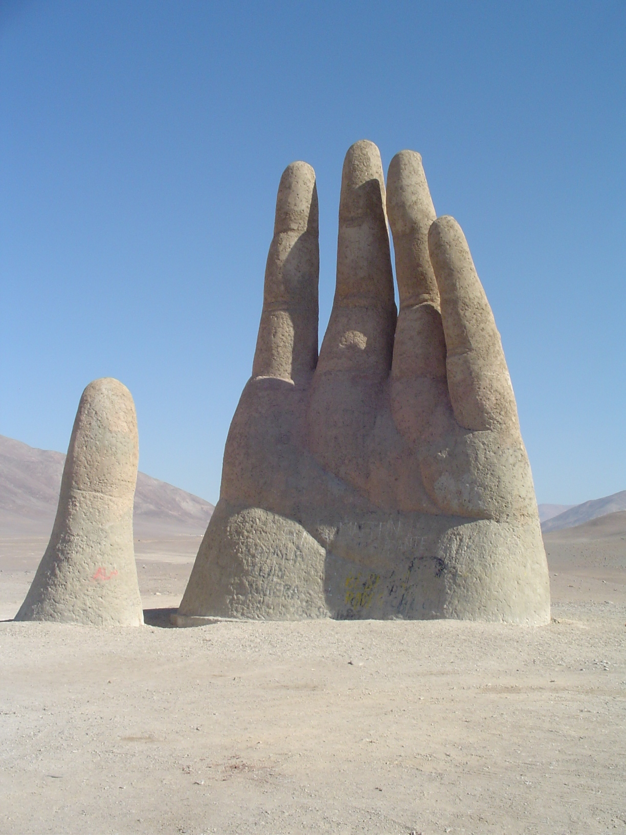 Desert's Hand. Sculpture by Mario Irarrázabal.Mano del Desierto